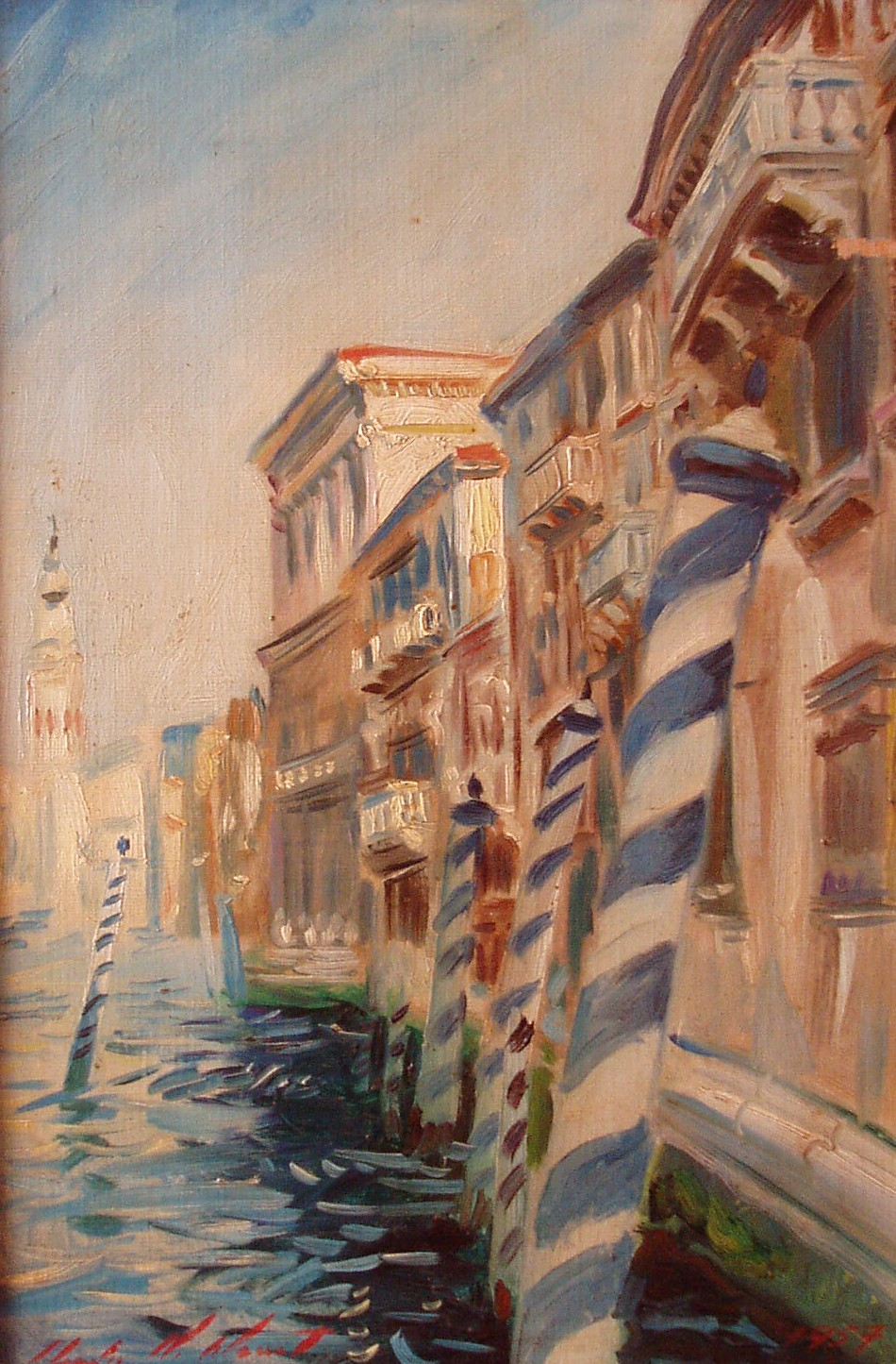 Photo of oil painting of venice of Charles Mount, 1956.